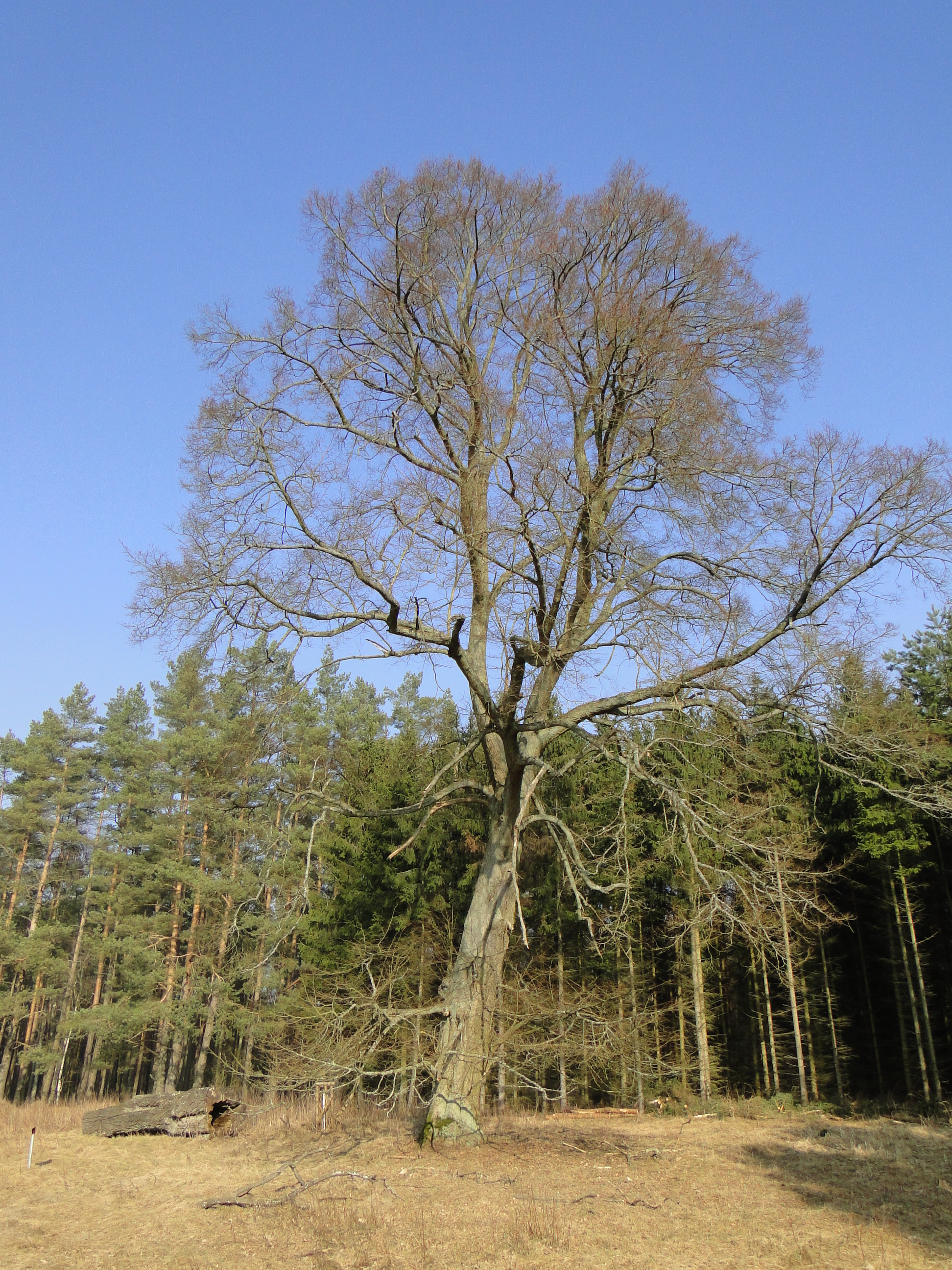 Natural monument, consisting of 2 tilias (one of them broken) in Grüner Jäger (Wüstung/abandoned village), district Parchim, Mecklenburg-Vorpommern, Germany